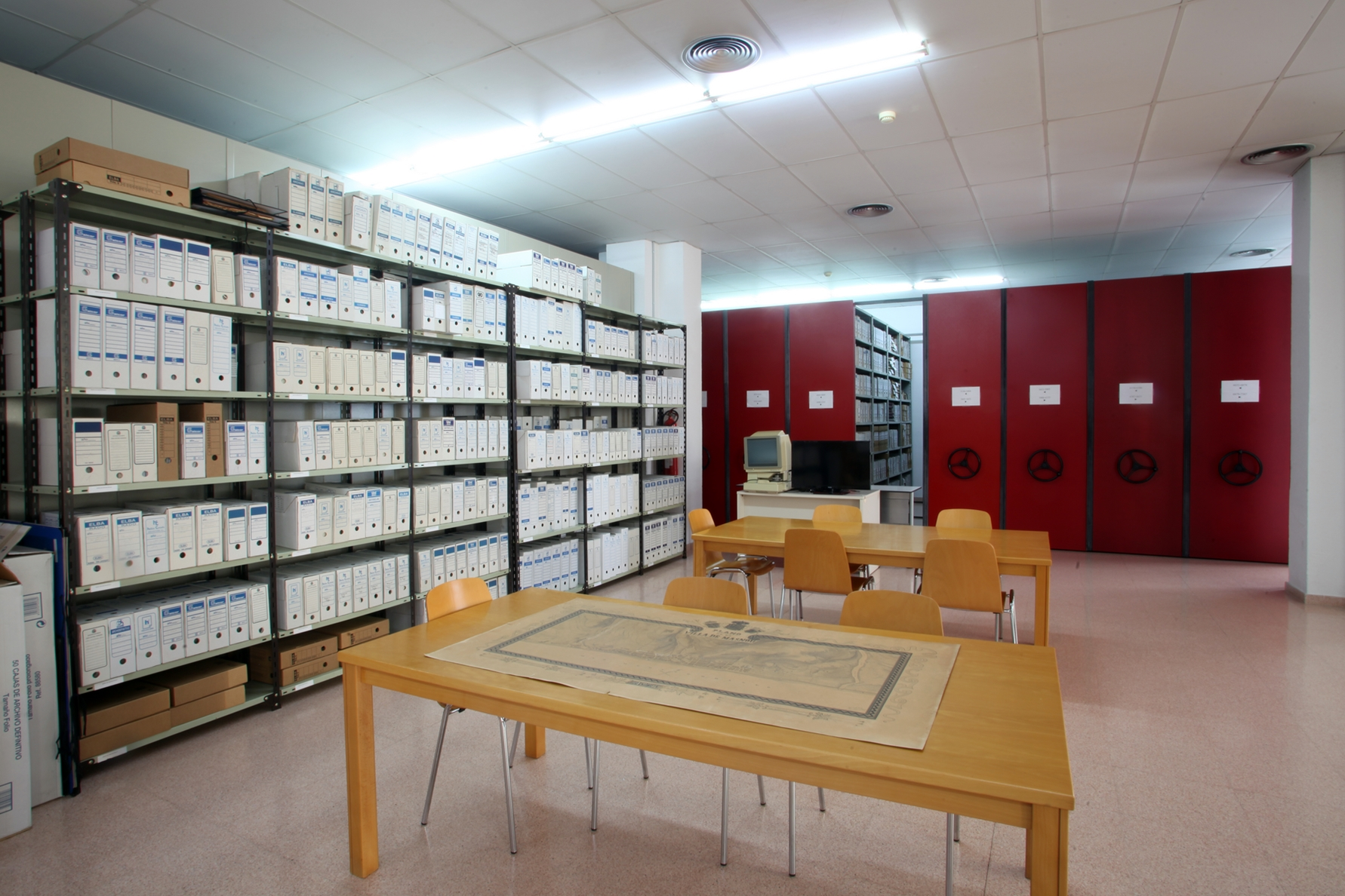 Reference room of the Municipal Archives of El Masnou (Spain) with a map on the table.